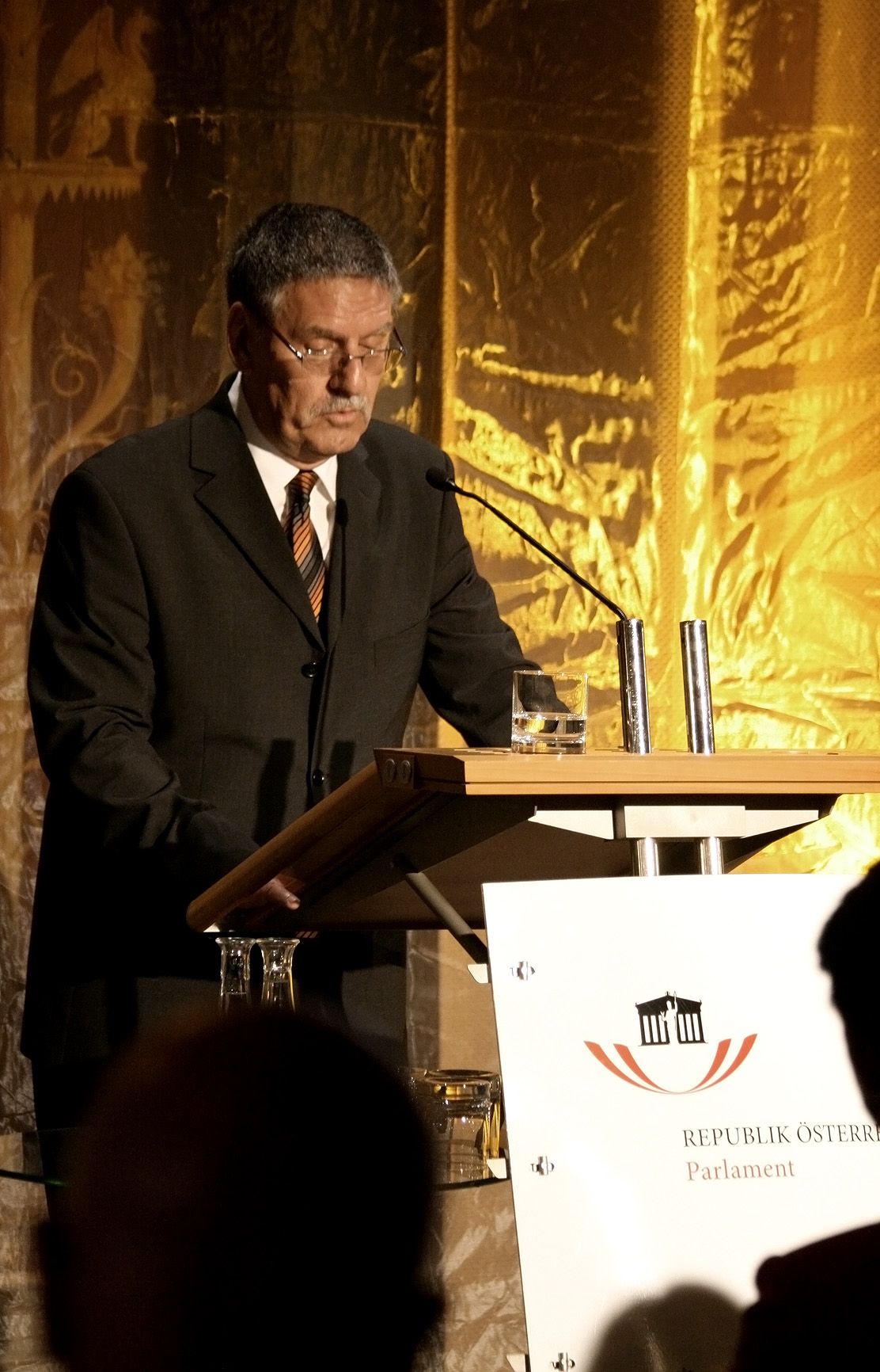 Wilhelm Filla, 43. Fernsehpreis der Österreichischen Erwachsenenbildung at the Budget Hall of the Austrian Parliament Building in Vienna.